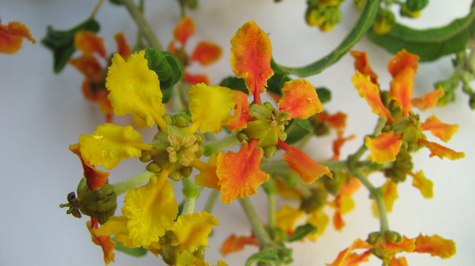 Tetrapterys phlomoides (Spreng.) Nied.